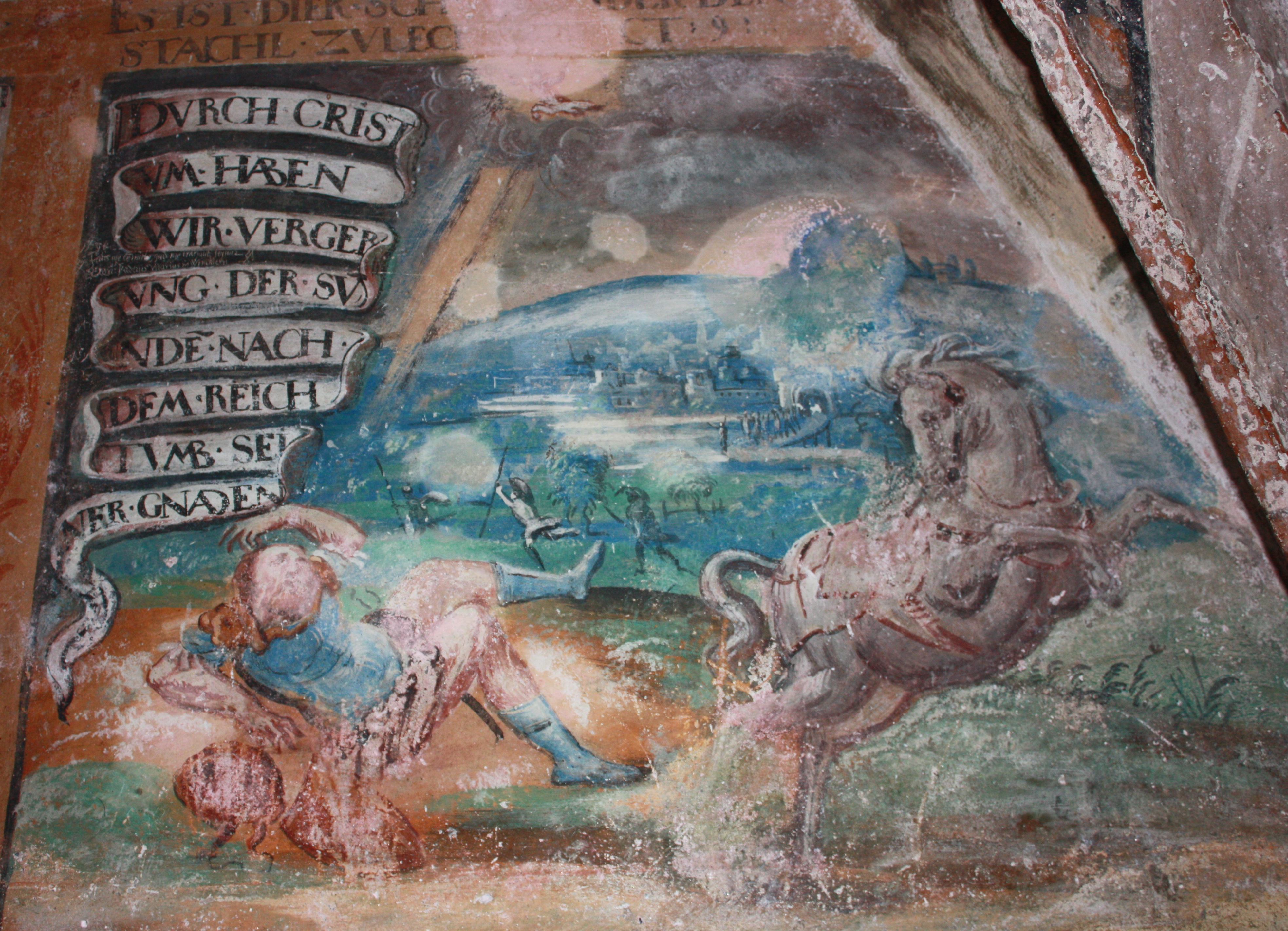 Parish church in Sagritz in the community of Großkirchheim - Conversion of Paul the Apostle